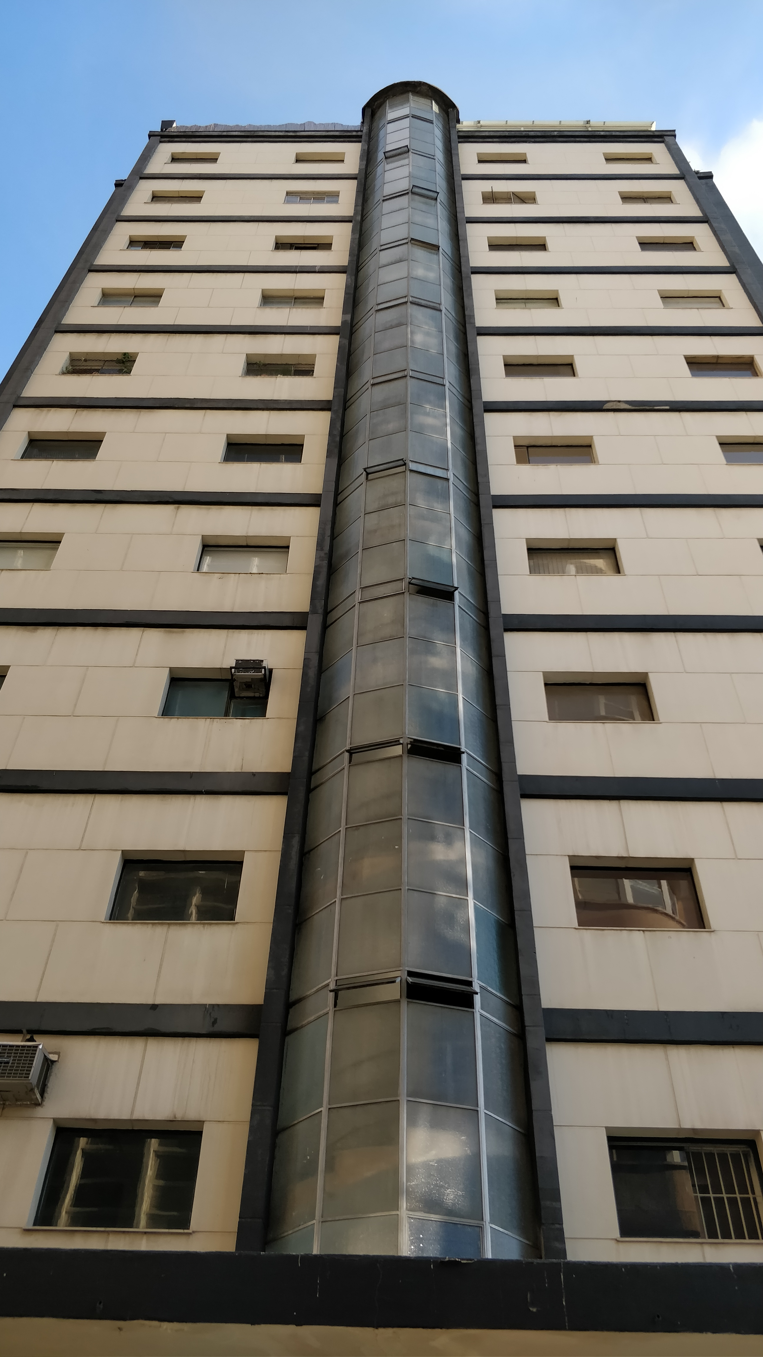 Detail of Edifício Esther, São Paulo